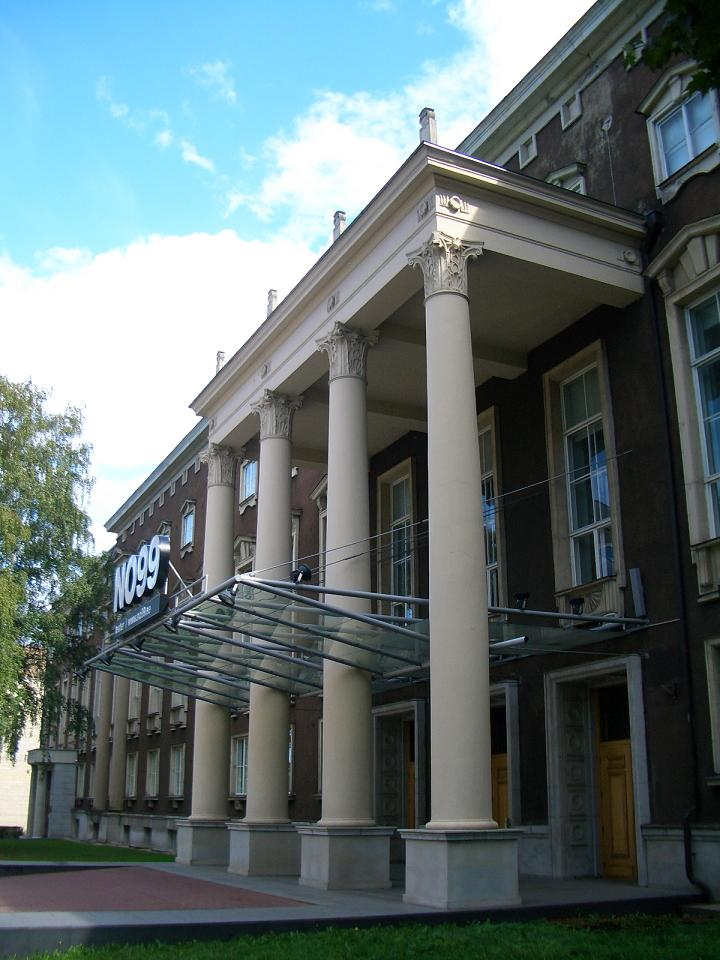 Administrative building, Sakala 1, Tallinn